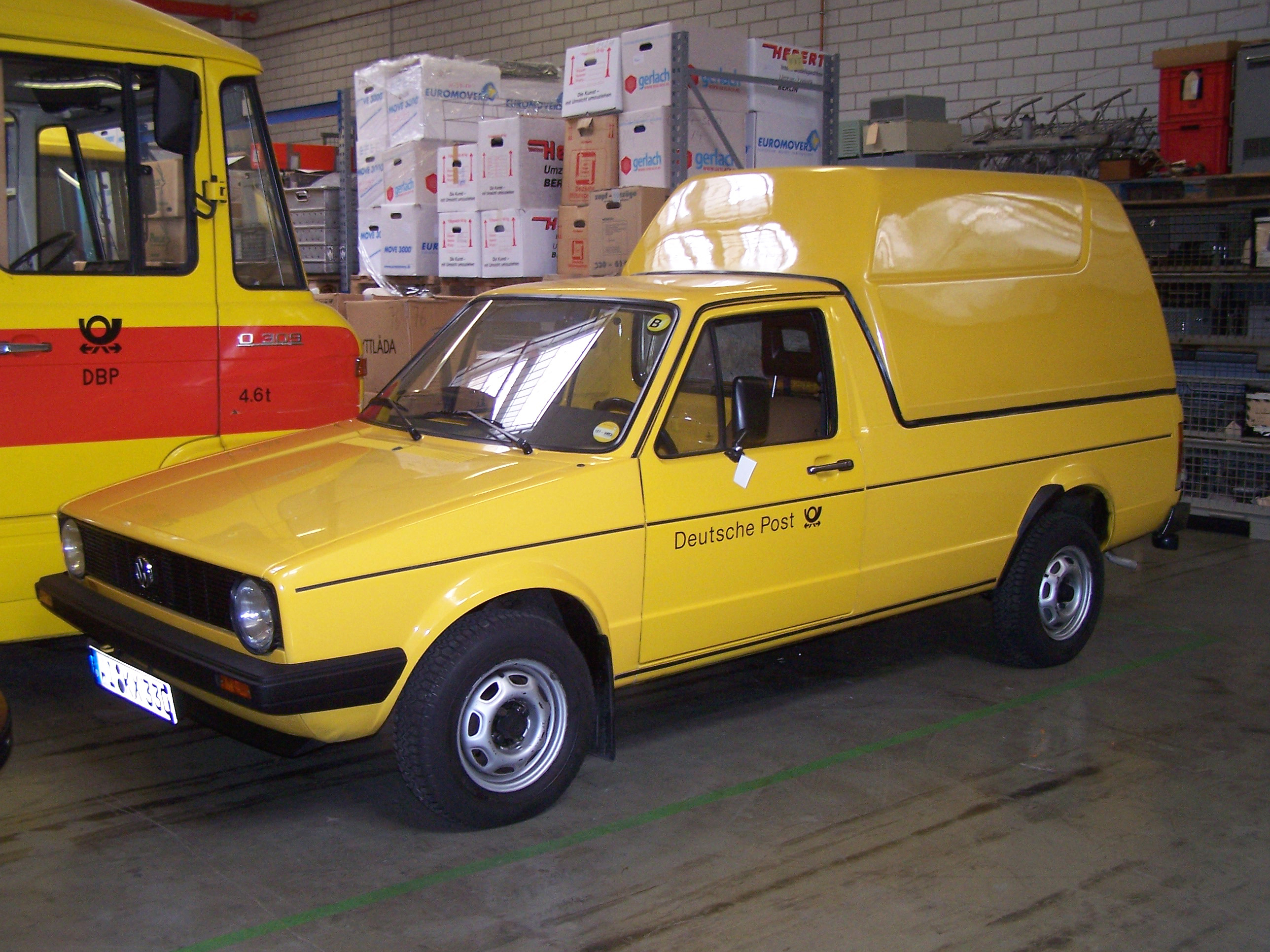 Volkswagen Caddy type 14D of the Deutsche Bundespost, in the depot of the Museum for communication Frankfurt am Main in Heusenstamm